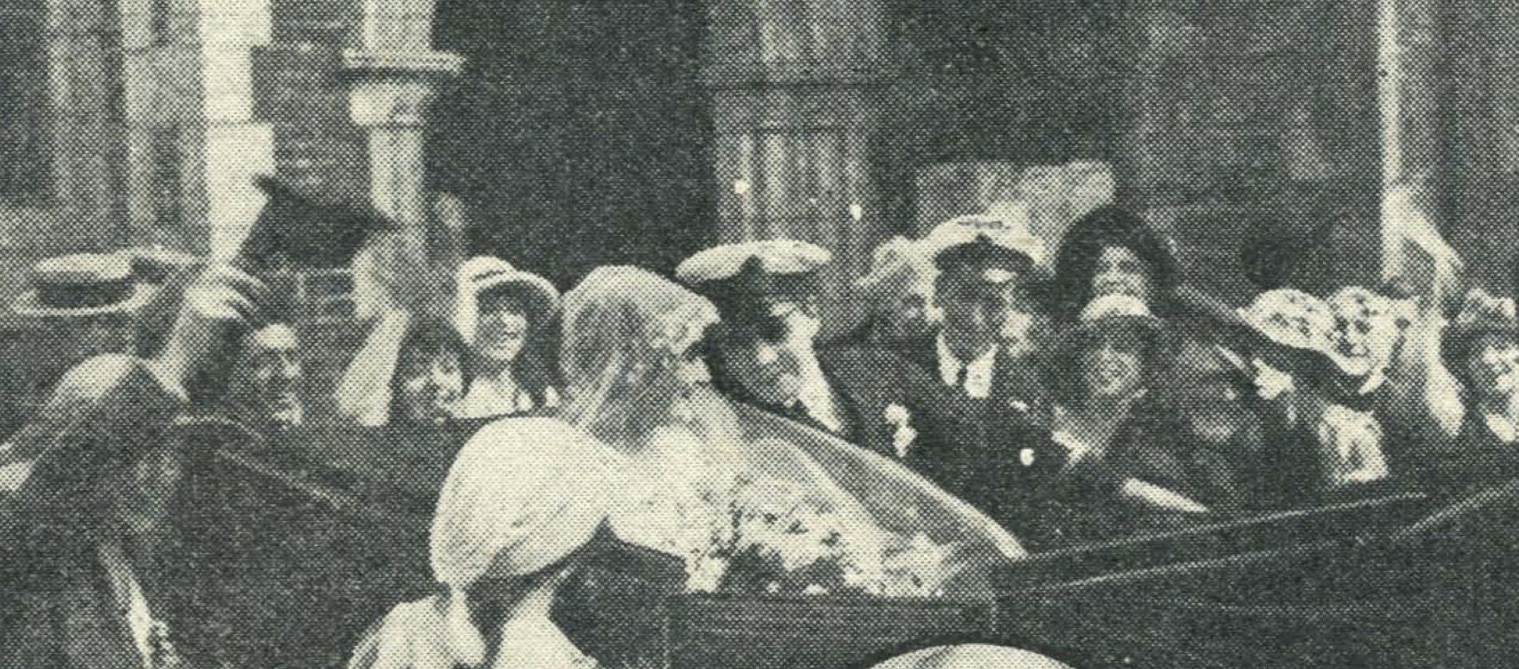 Scene from the film "The Man Who Forgot" in a 1919 magazine: Cinema Chat